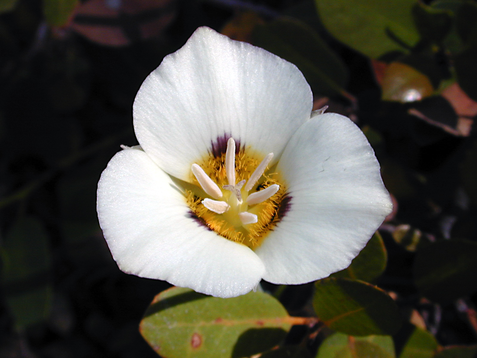 Calochortus leichtlinii — Leichtlins Mariposa Lily. Growing along the trail to Sentinel Dome, in wooded area of Yosemite National Park. (Jepson ID)